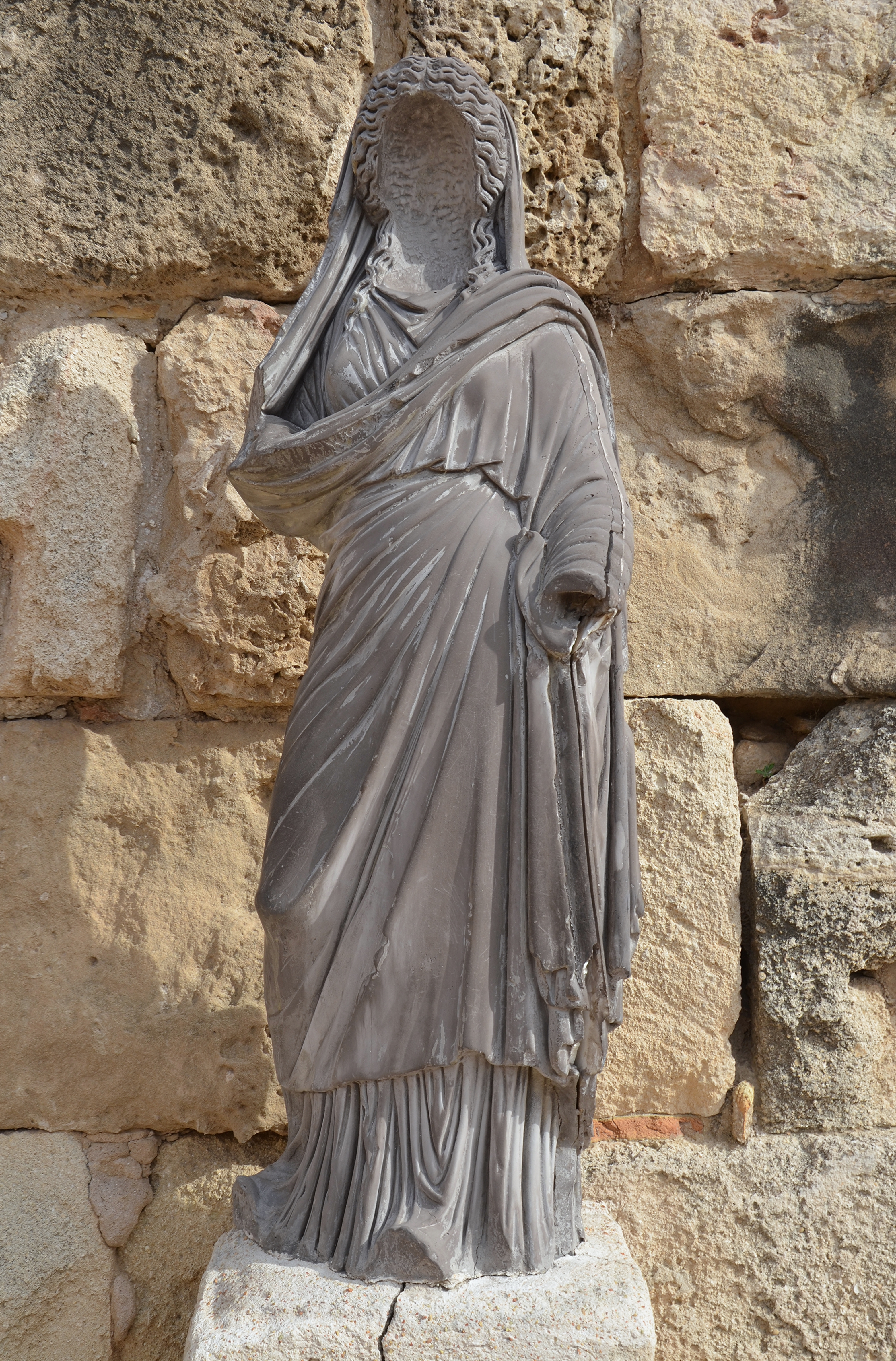 Statue of a female figure in grey marble, its face, hands and feet were white marble insets and are now missing, this type is usually identified with Persephone, Salamis, Northern Cyprus